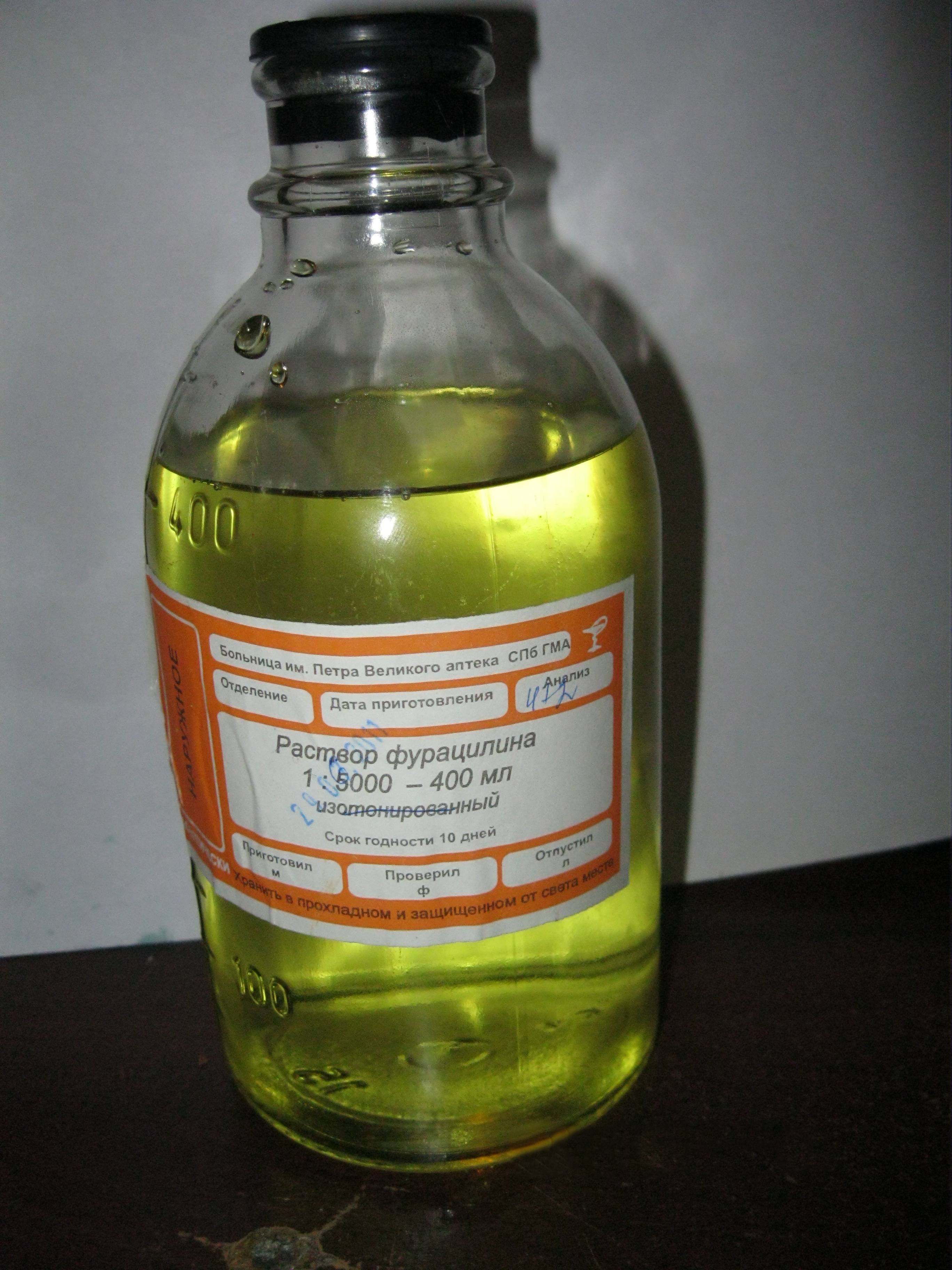 400 mL bottle filled with aqueous solution of Furacilin (INN — nitrofural), 1 : 5000 (0.2 mg/mL or 0.02%), ready for topical use.